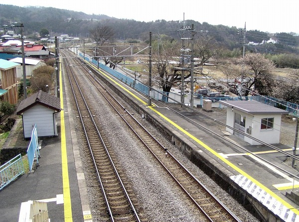 Tsukuda Station of the Jōestu Line, Shibukawa, Gunma, Japan